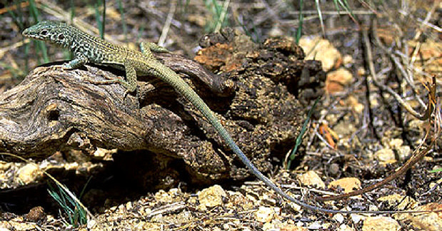 Western whiptail (Cnemidophorus tigris). This species is found in Mojave Desert and Transition Zone vegetation types and is the second most abundant species of lizard on the Nevada Test Site.